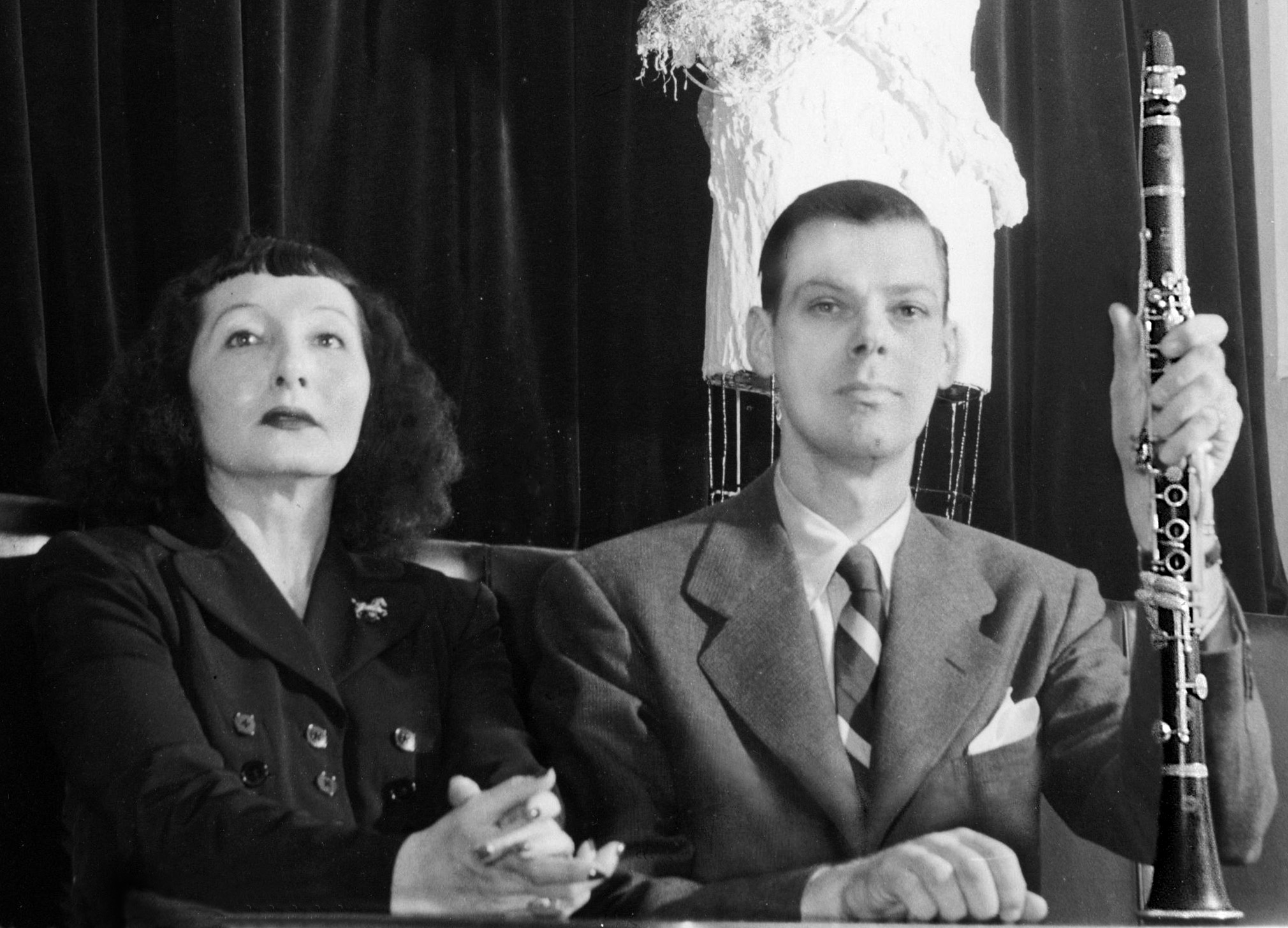 Bill and Ruth Reinhardt, Jazz, Ltd., 1947, in front of Ziblid statue. The back is marked: Ruth & Bill Reinhardt Owners of Jazz, Ltd. (This is supposed to be a ‘tin type’) 704